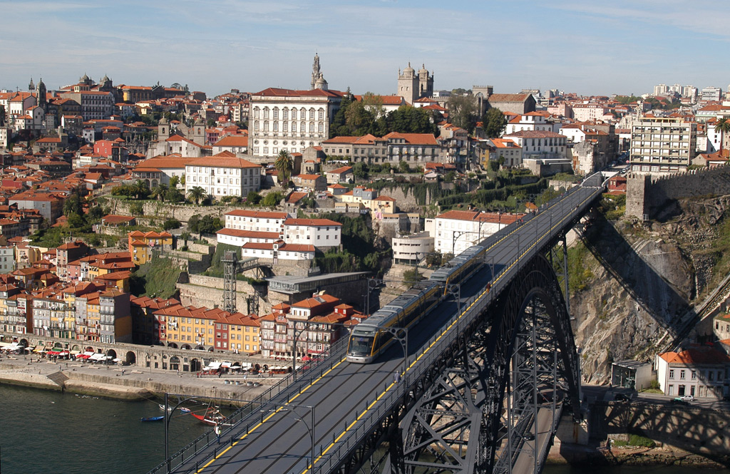 The historic center of OPorto.